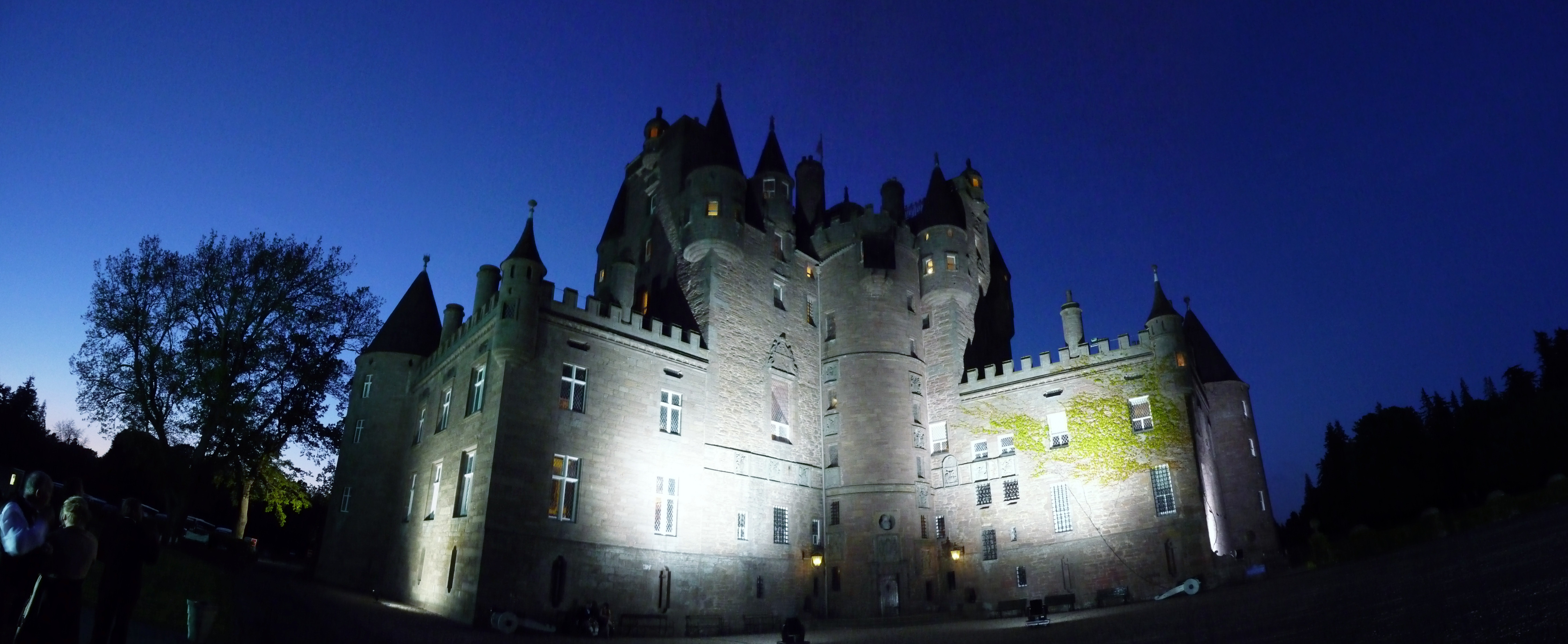 Dinner dance at Glamis Castle 30/05/2009